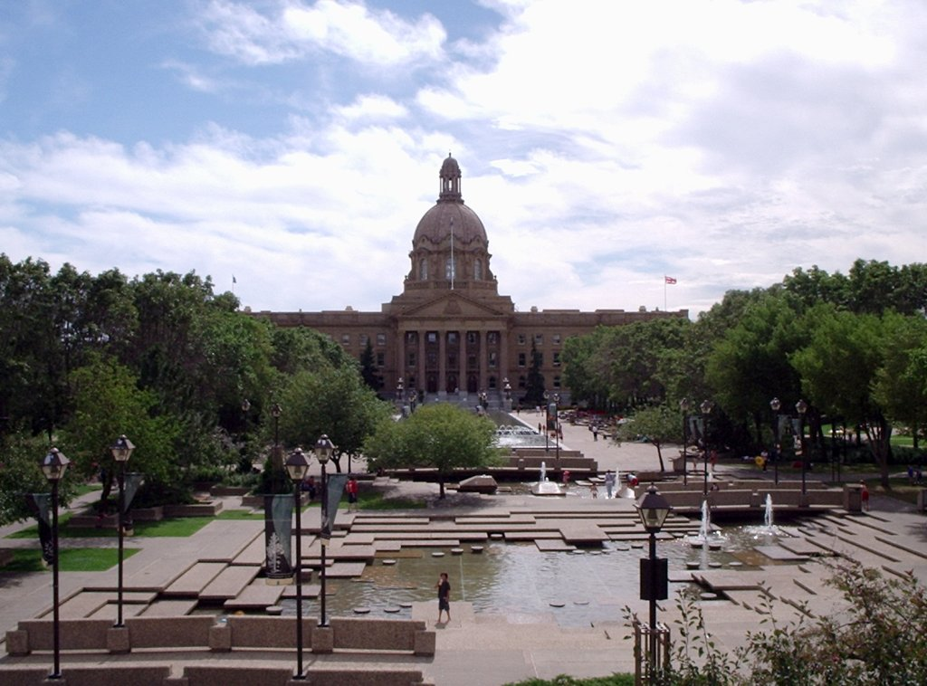 Alberta Legislative Building in Edmonton, Canada